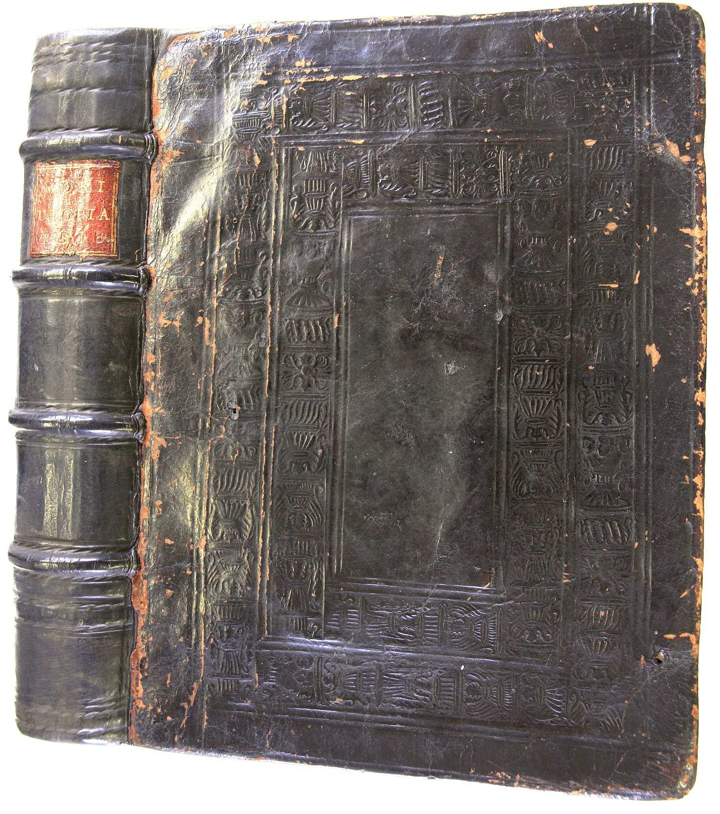 This is the front cover and the spine of Thomas More's book titled "Utopia" (november 1518 edition Basel, Johannes Frobenius). This copy is owned by the Folger Shakespeare Library.